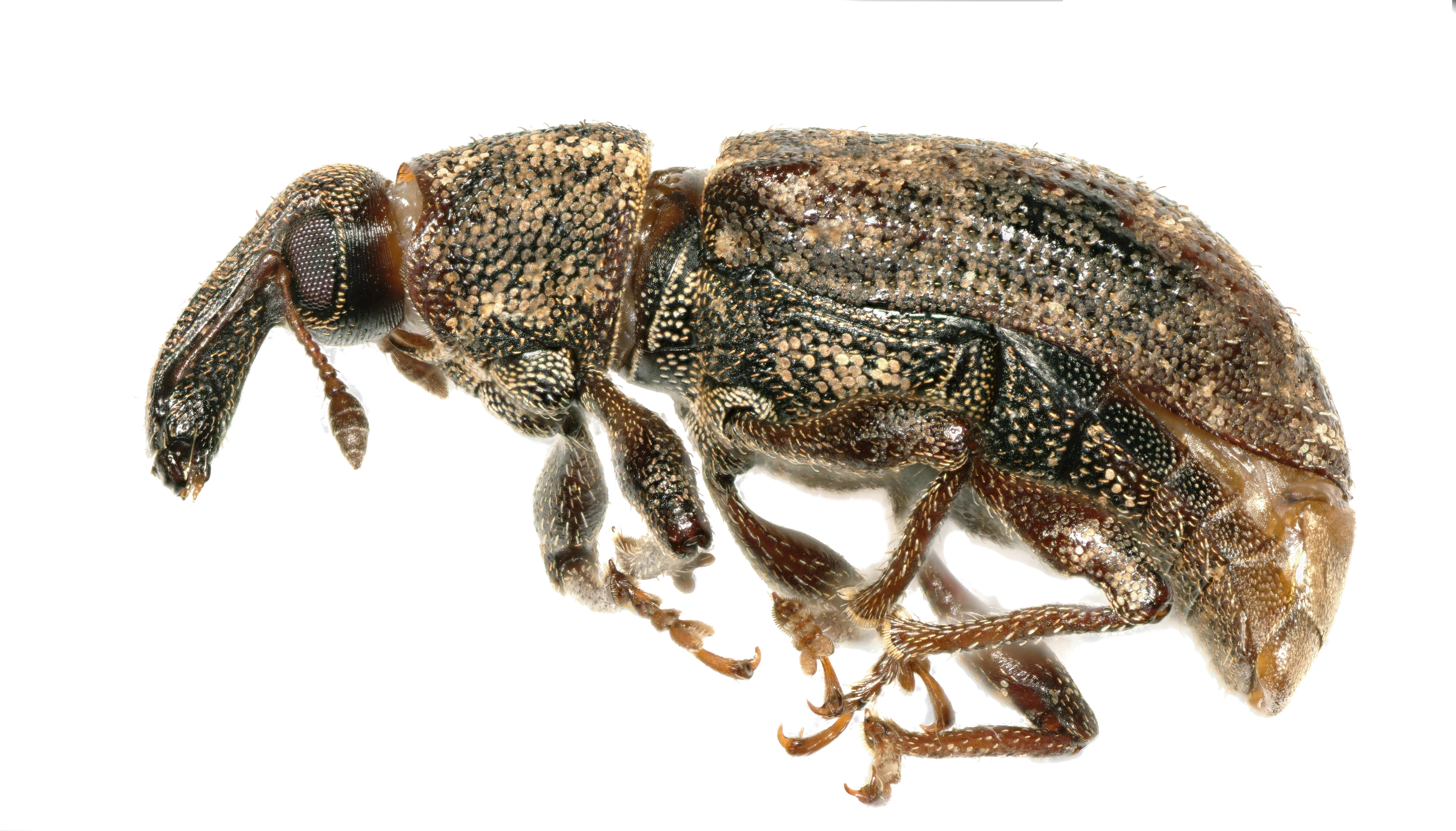 Carrot weevil adult